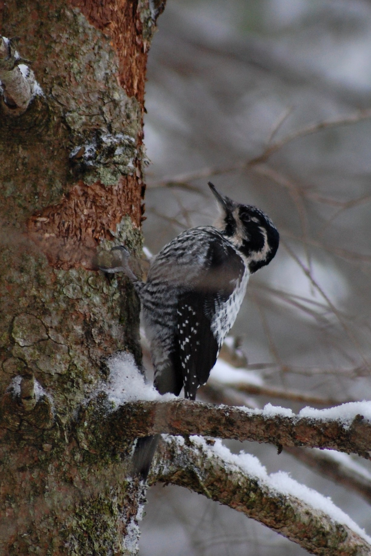 female Three-toed Woodpecker